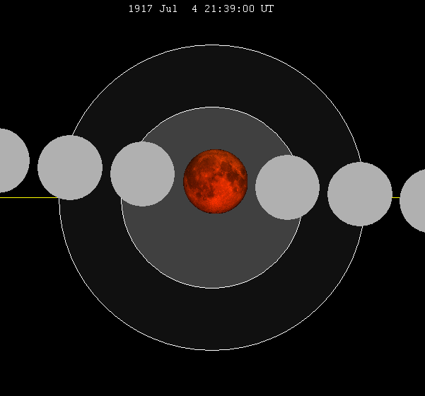 July 1917 lunar eclipse chart of moon's lunar eclipse path through the earth's shadow. thumb